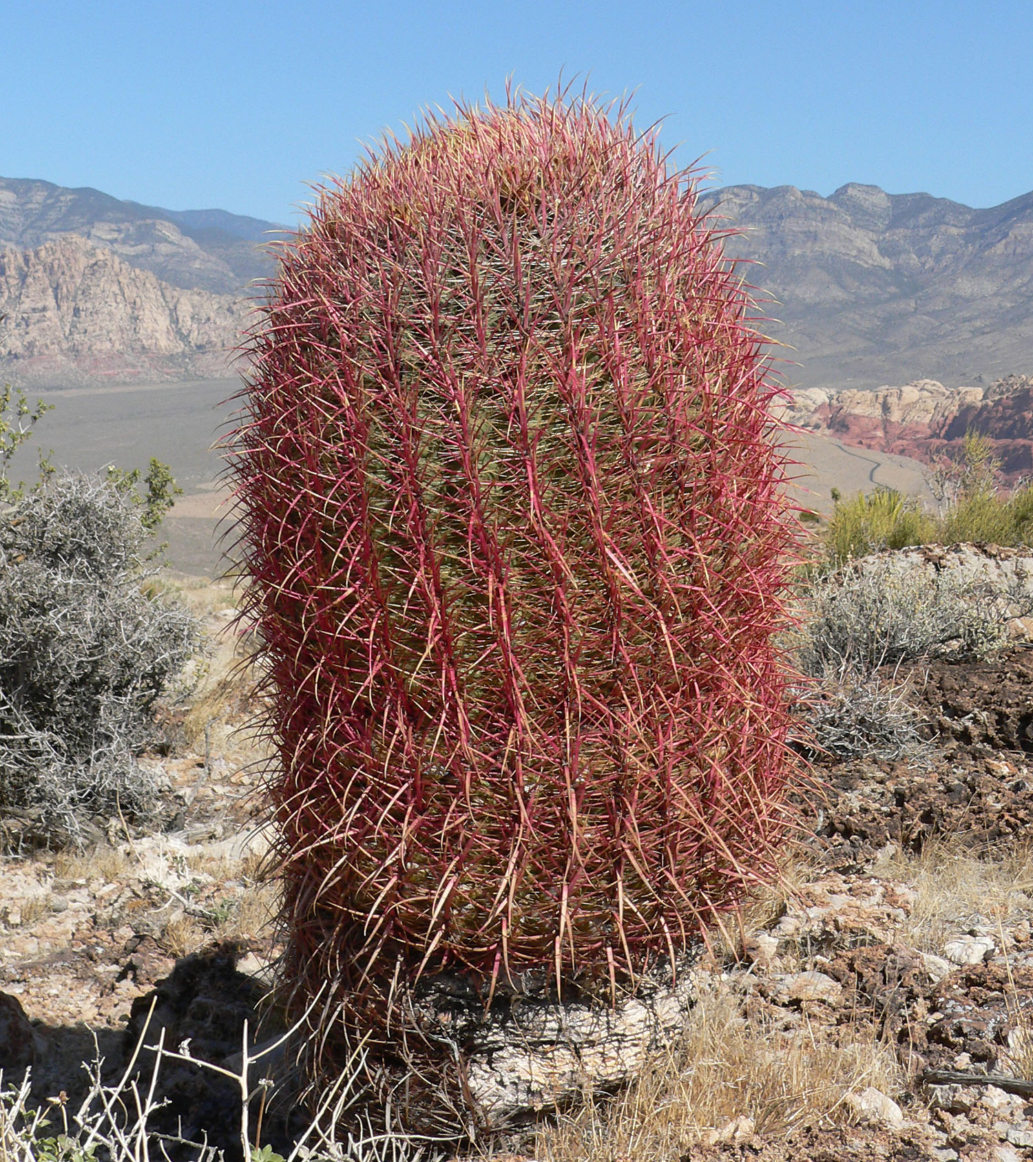 Ferocactus cylindraceus on Blue Diamond Hill, Red Rock Canyon, southern Nevada